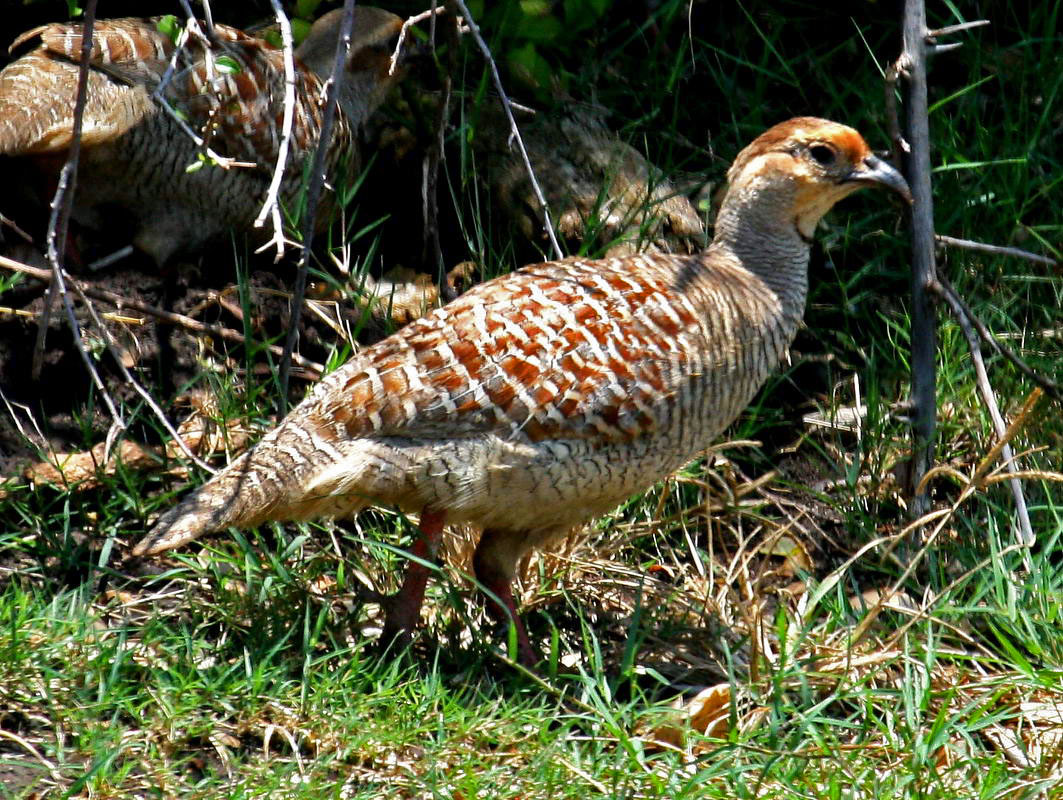 Grey Francolin (Francolinus pondicerianus) - Maui, Hawaii